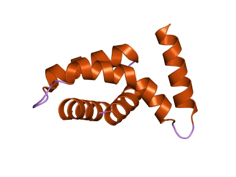 Cartoon representation of the molecular structure of protein registered with 1z21 code.